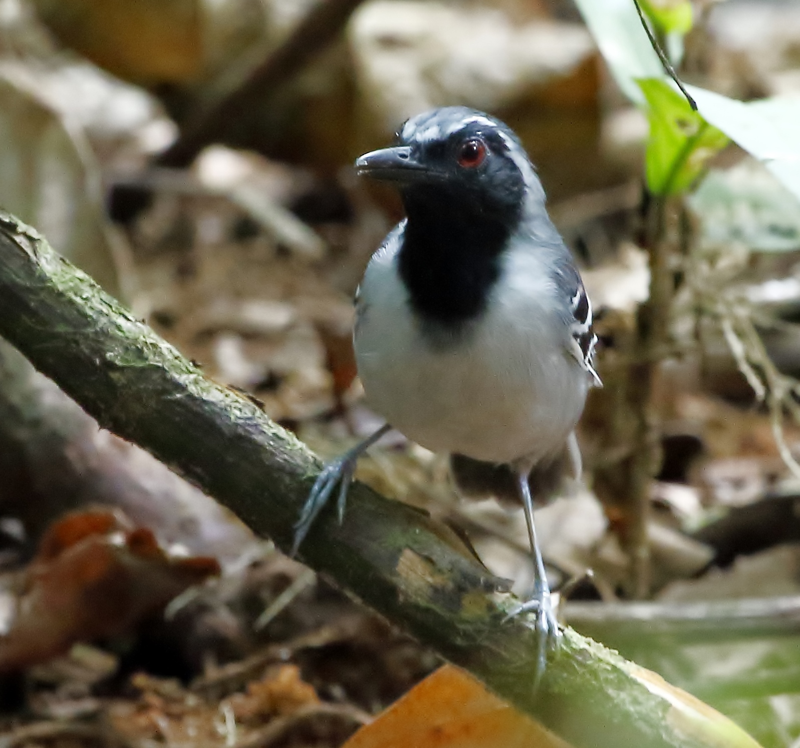 Black-faced antbird (male) at Carajás National Forest, Pará, Brazil